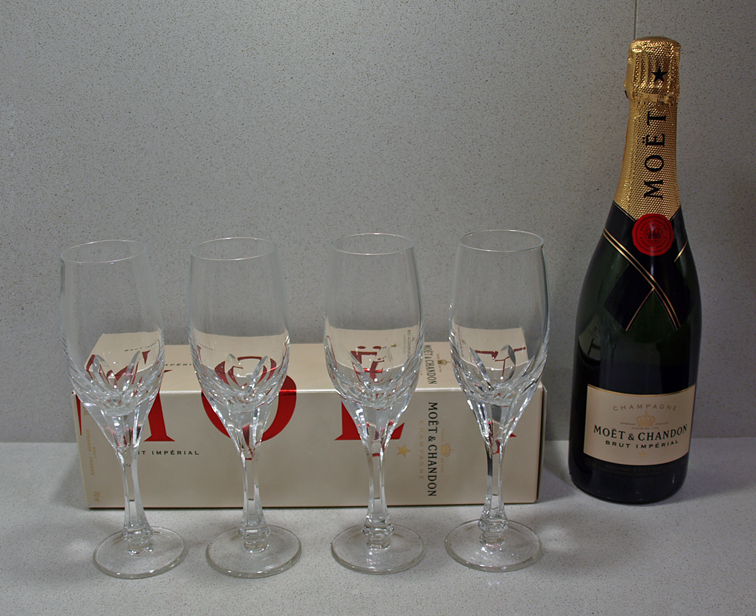 Moët & Chandon